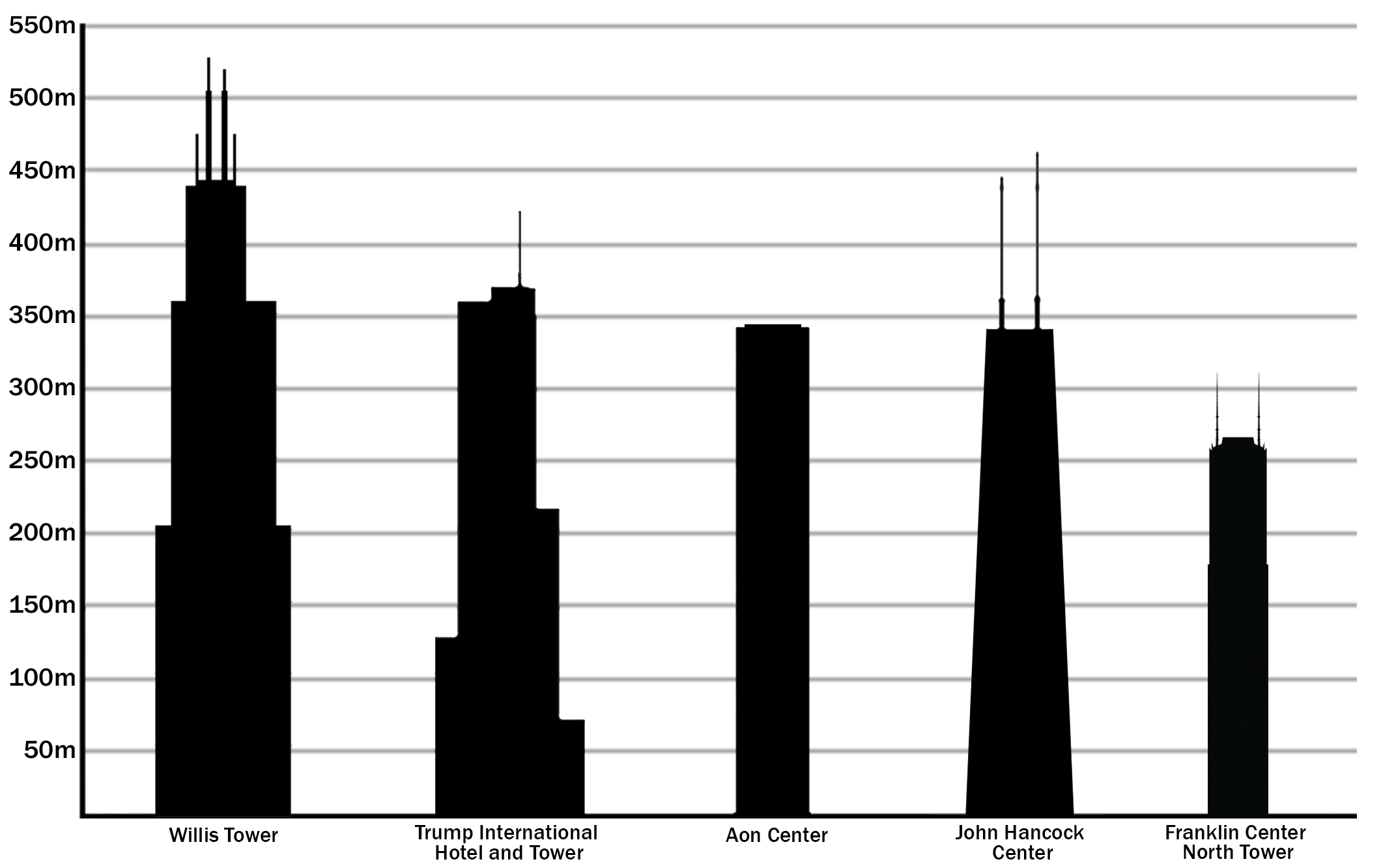 Tallest buildings in Chicago; Used data from .